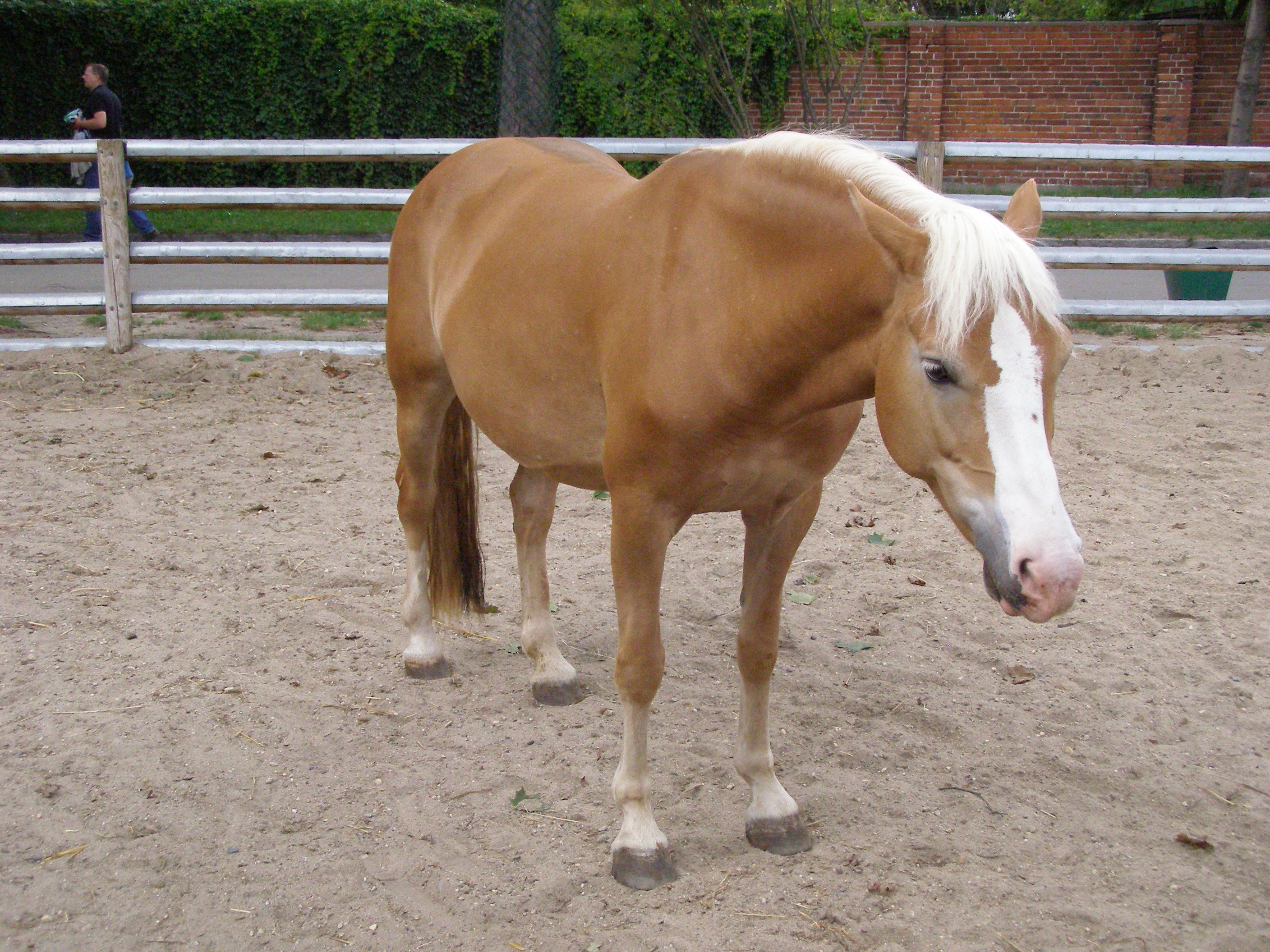 Wrocław - Zoological Garden - Haflinger horse